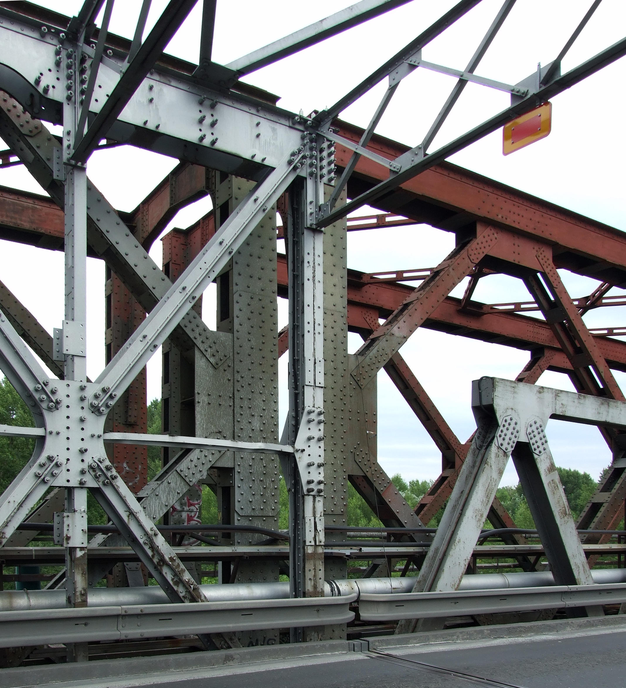 Old bridge ("Starý most" in Slovak) is the oldest bridge in Bratislavahelp